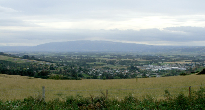 The Taieri Plains, NZ, seen from the north